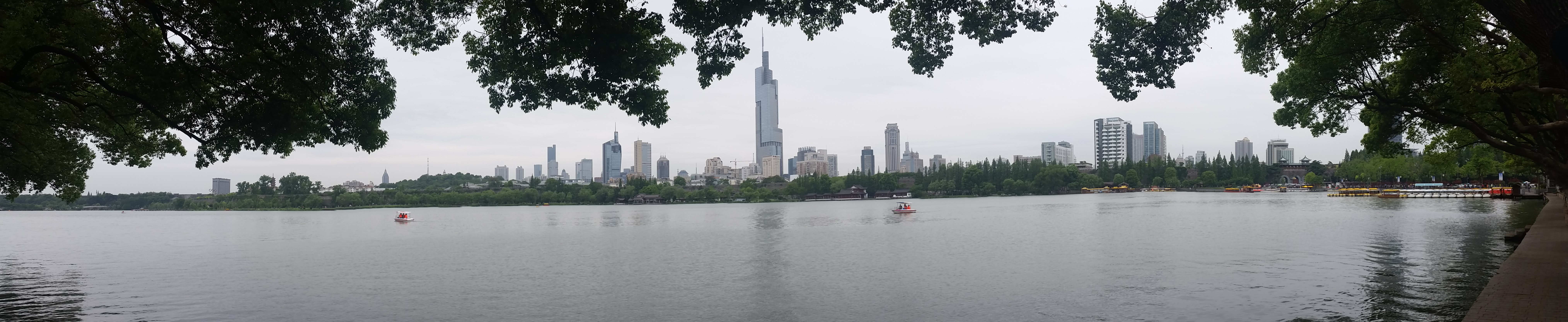 Nanjing - Skyline from Xuanwu Lake